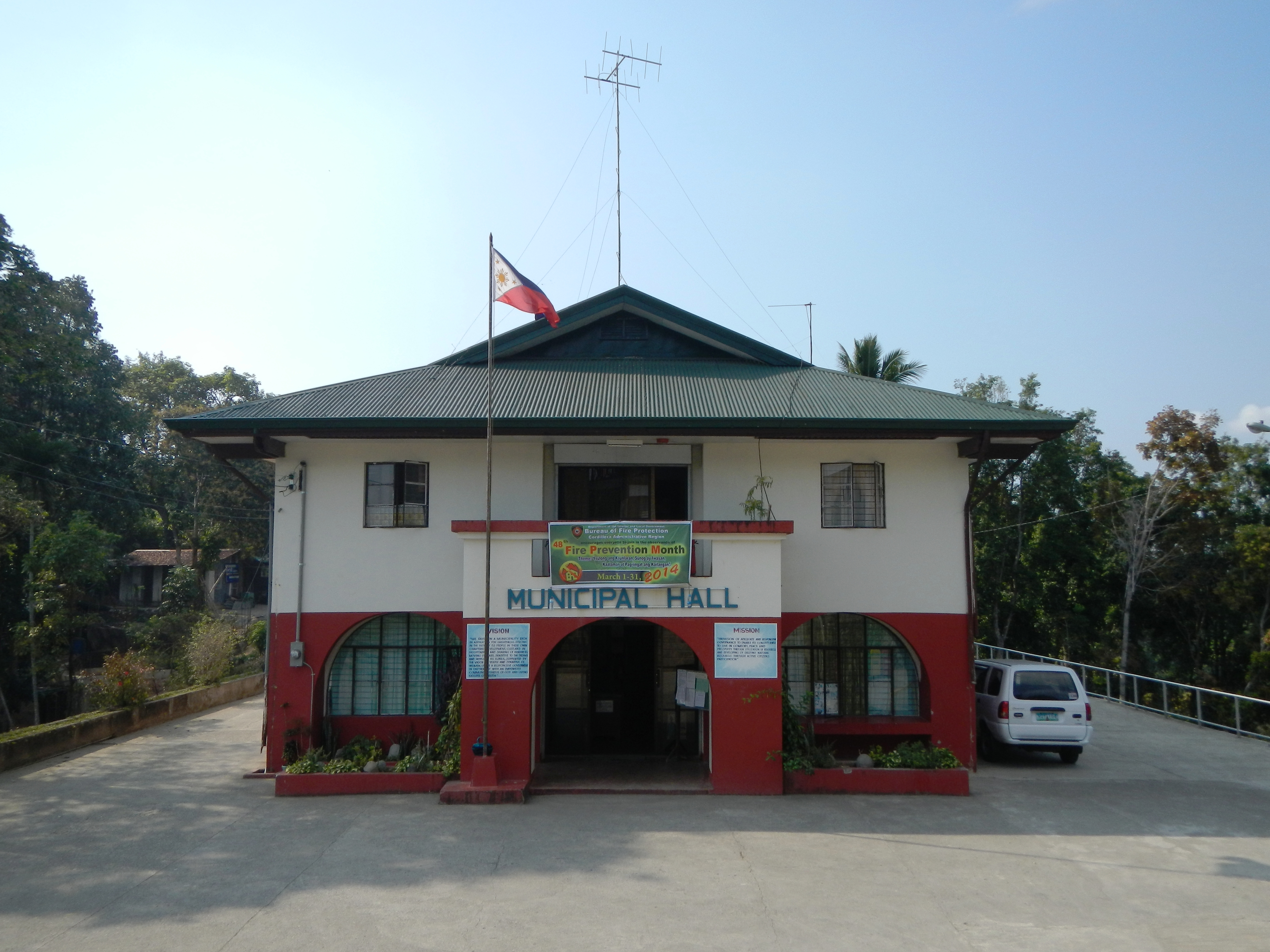 This is part of photos of the beautiful Sablan Municipal Hall complex compound and offices beside the Gymnasium, police station and the 66th Infantry USAPIL 129 Infantry 37th Division US Armay NL WWII monument of Benguet heroes in Town Proper of Sablan, Benguet Benguet province (Welcome monument, along Naguillan road, gateway to Baguio City; inclduing the scenery, panoramics, landscapes of Cordillera Central (Luzon) mountain ranges, with only one bank, the Benguet Center Bank, Inc.).